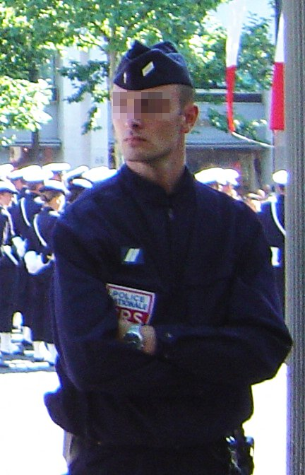 A member of the CRS (riot police units of the French National Police), during a July 14 parade (Face obscured; as far as I know, we're not supposed to publish close-up, recognizable, photographs of "private" people without their consent.) The chest stripe indicates a gardien de la paix.